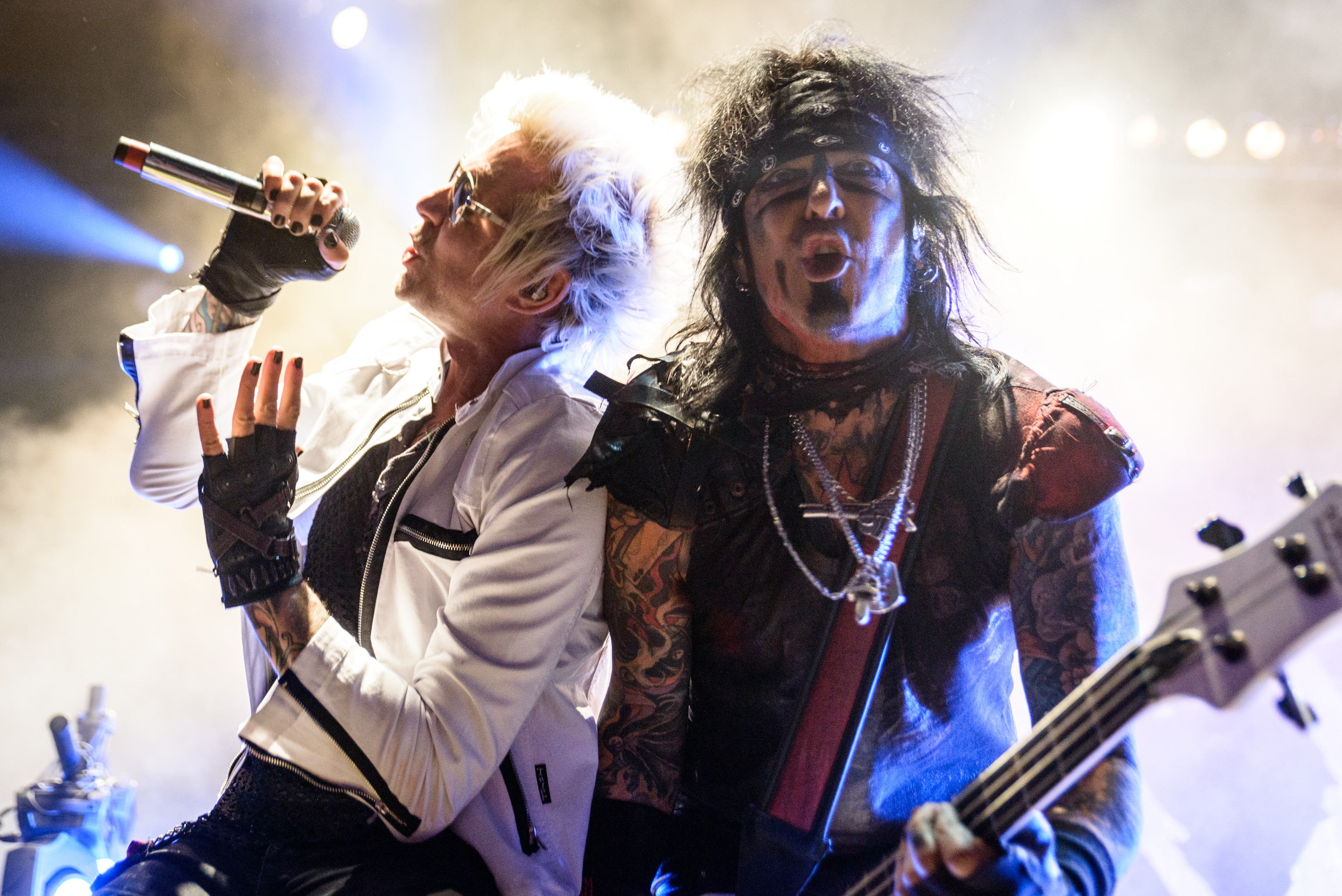 Sixx:A.M. @ Rock im Park 2016